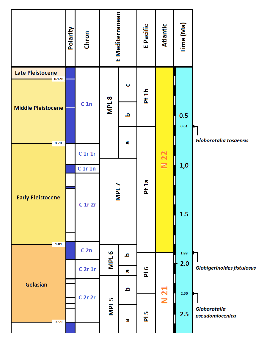 The N 22 zone amongst the various foraminifer zones of the Pleistocene. Indicated also the highest occurrence (HO) of certain key taxa.